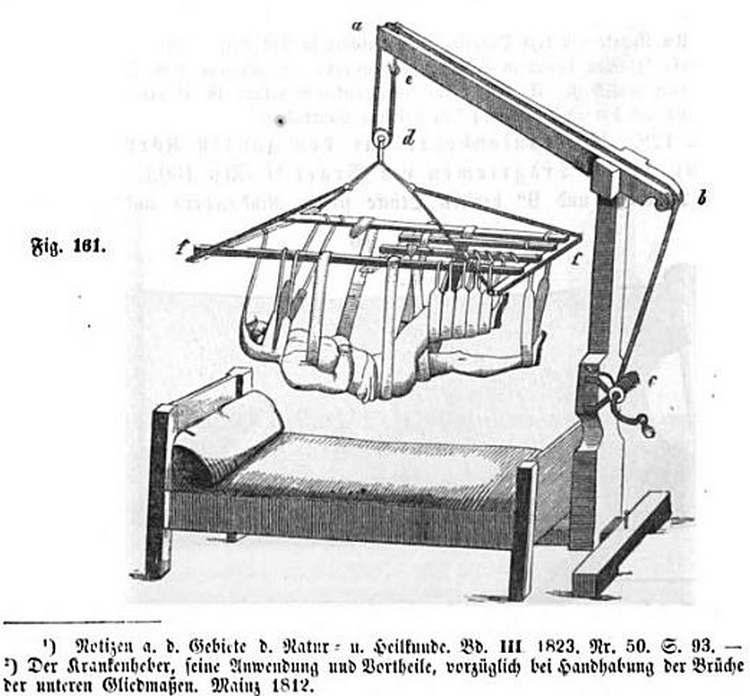 Patient Lifter